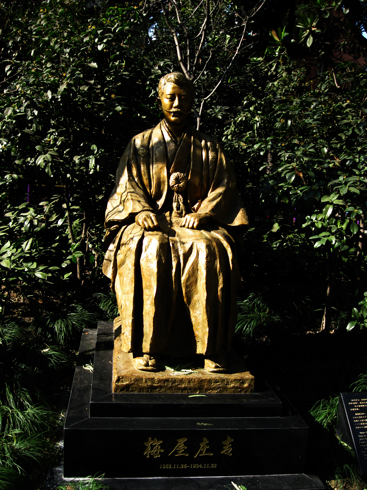 Mr. Umeya SyouKichi